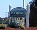 Sign Of Ruckersville, Virginia.